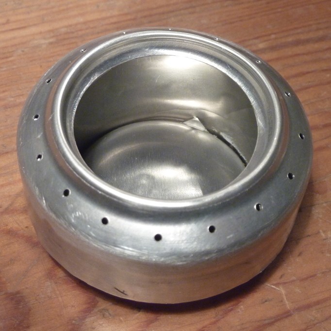 DIY beverage-can alcohol burner, built from two empty beer cans. See the article Beverage-can stove for details.